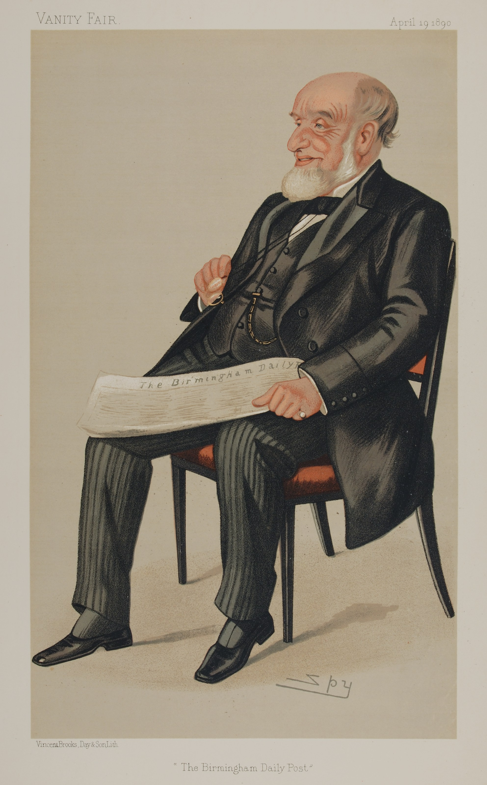 Men of the Day No. 466: Caricature of John Jaffray. Caption read "The Birmingham Daily Post".